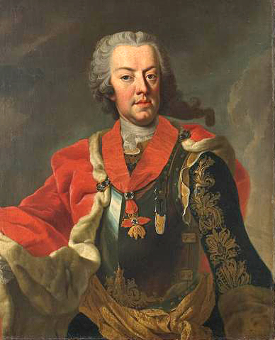 Derived from File:Martin van Meytens 007.jpg